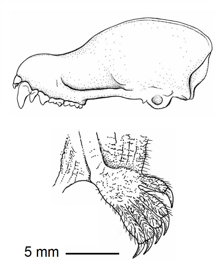 Lateral view of the skull and dorsal view of the insertion point of plagiopatagium on the right hind foot of Murina harrisoni. IUCN: Murina harrisoni Csorba & Bates, 2005 (old web site) (Data Deficient)